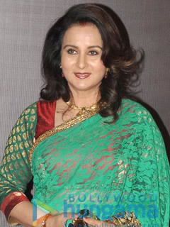 Poonam Dhillon at 20th Annual Life OK Screen Awards